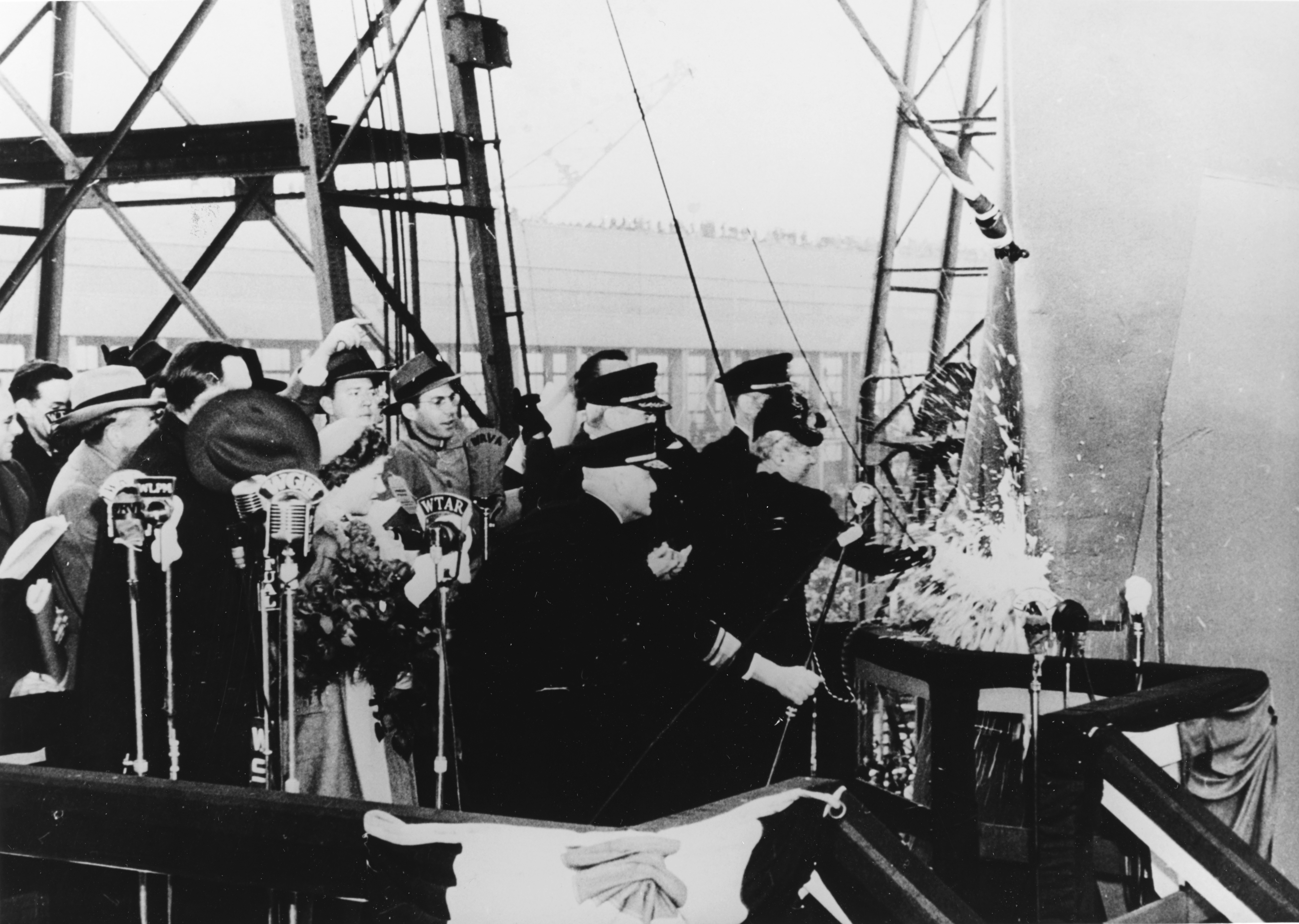 The U.S. Navy aircraft carrier USS Shangri-La (CV-38) is christened by Mrs. Josephine "Joe" E. Doolittle, wife of (then) U.S. Army Air Forces Major General James H. Doolittle, during launching ceremonies at the Norfolk Navy Yard, Virginia (USA), 24 February 1944. Rear Admiral Felix X. Gygax, the Navy Yard Commandant, is in the foreground, holding a microphone close to the sponsor's champagne bottle as it smashes into the new carrier's bow. The aircraft carrier was named Shangri-La, because in April 1942 President Franklin D. Roosevelt said that the famous "Doolittle Raid" on Tokyo was flown from Shangri-La, a fictional paradise from the popular novel "Lost Horizon" by James Hilton. In reality, Lt.Col. Doolittle had led sixteen USAAF Martin B-25B Mitchell bombers to bomb targets in Japan after taking off from the aircraft carrier USS Hornet (CV-8).